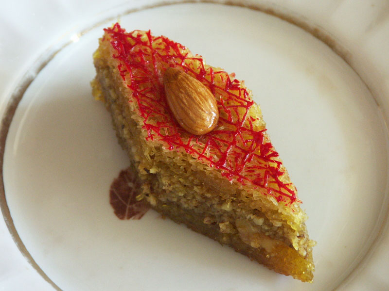 Azerbaijani national sweet, Quba styli